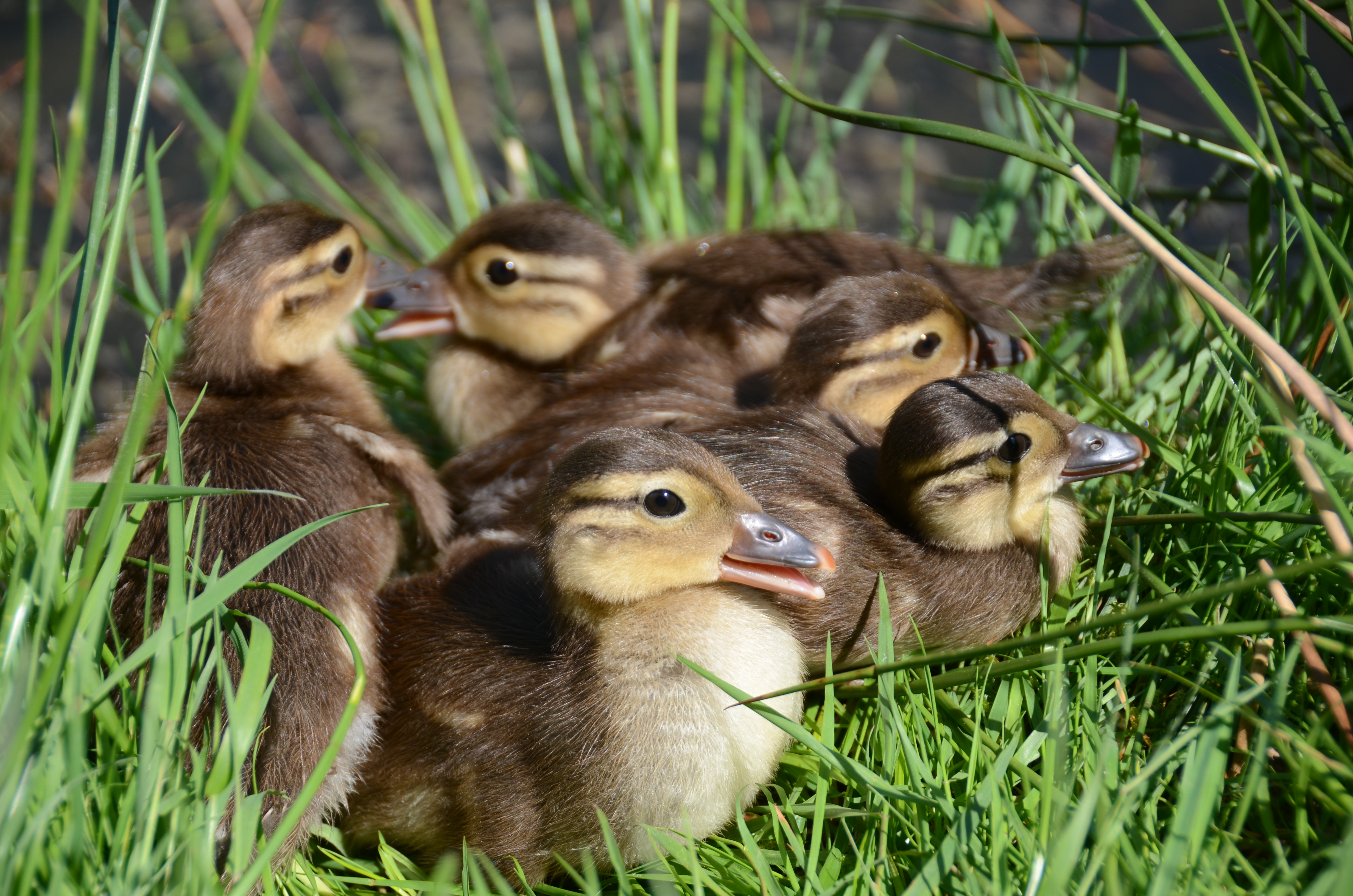 Detailshot frtom the 5 Mandarin duck chickens Schaarsbergen